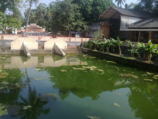 Temple pond